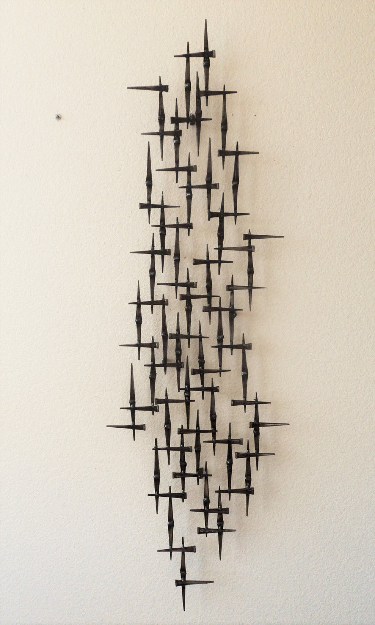 Harpoon sculpture Created by Artit Corey Ellis